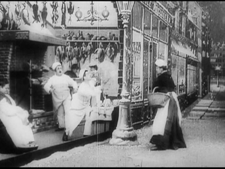 Still from Georges Méliès's film The Christmas Angel (Détresse et Charité, 1904).